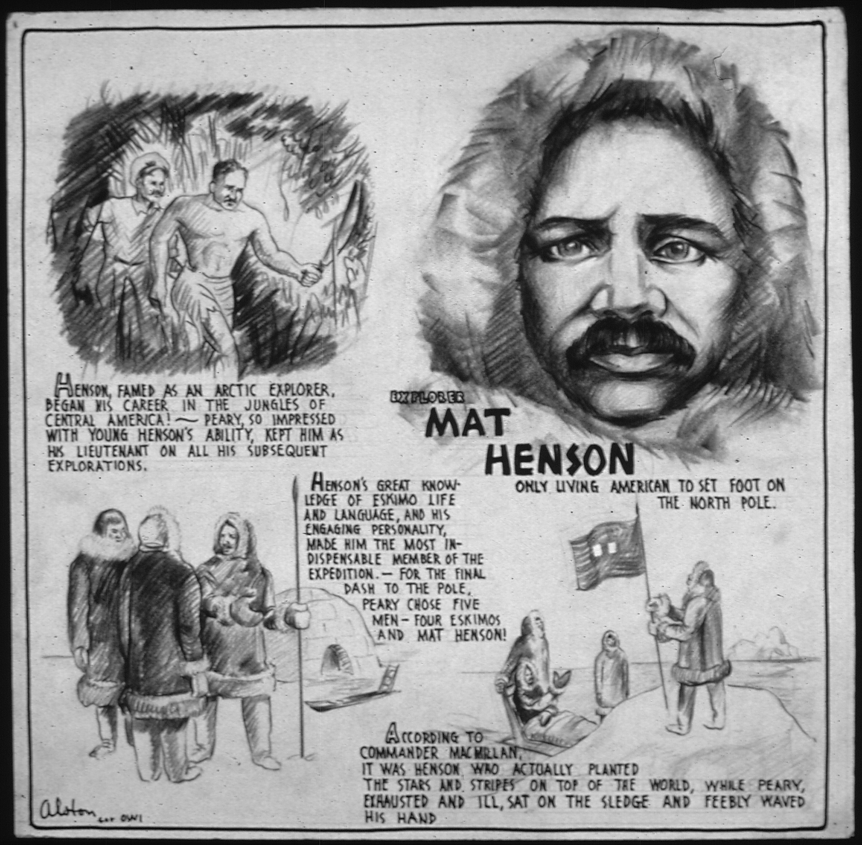 Scope and content: Mat Henson - with biographical paragraphs.